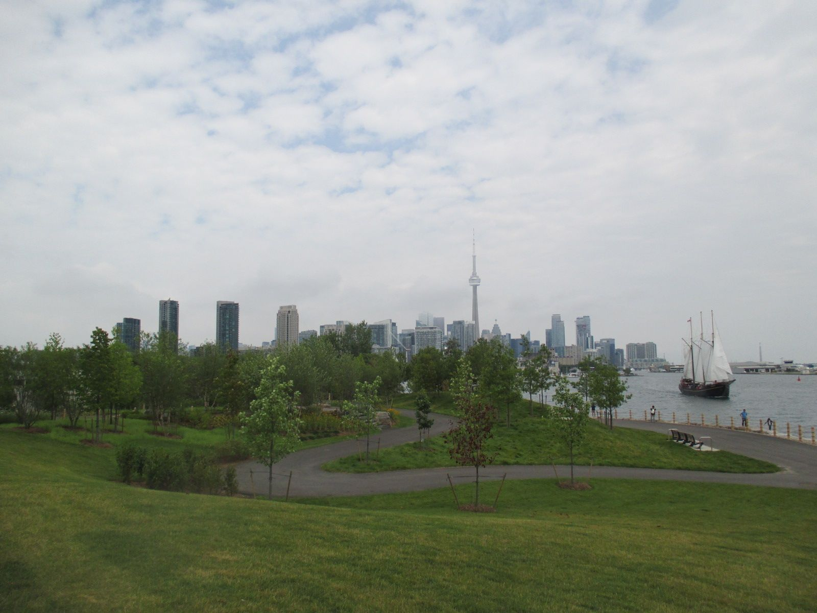 Trillium Park, Toronto - View from The Summit, the highest point in Trillium Park